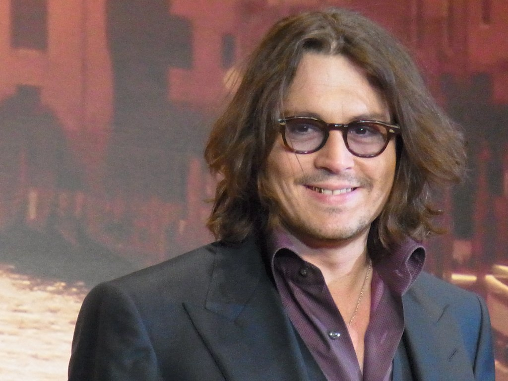 American actor Johnny Depp The Tourist premiere in Tokyo, Japan 2011.